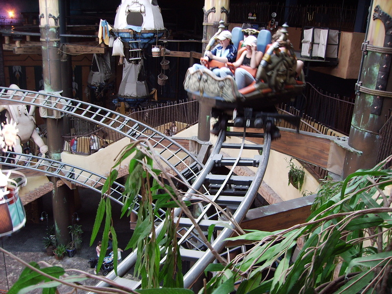 Winja's Fear & Force